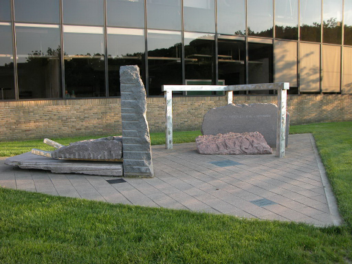 Picture of Köszönöm, a monument at the University of Michigan, commemorating Raoul Wallenberg.